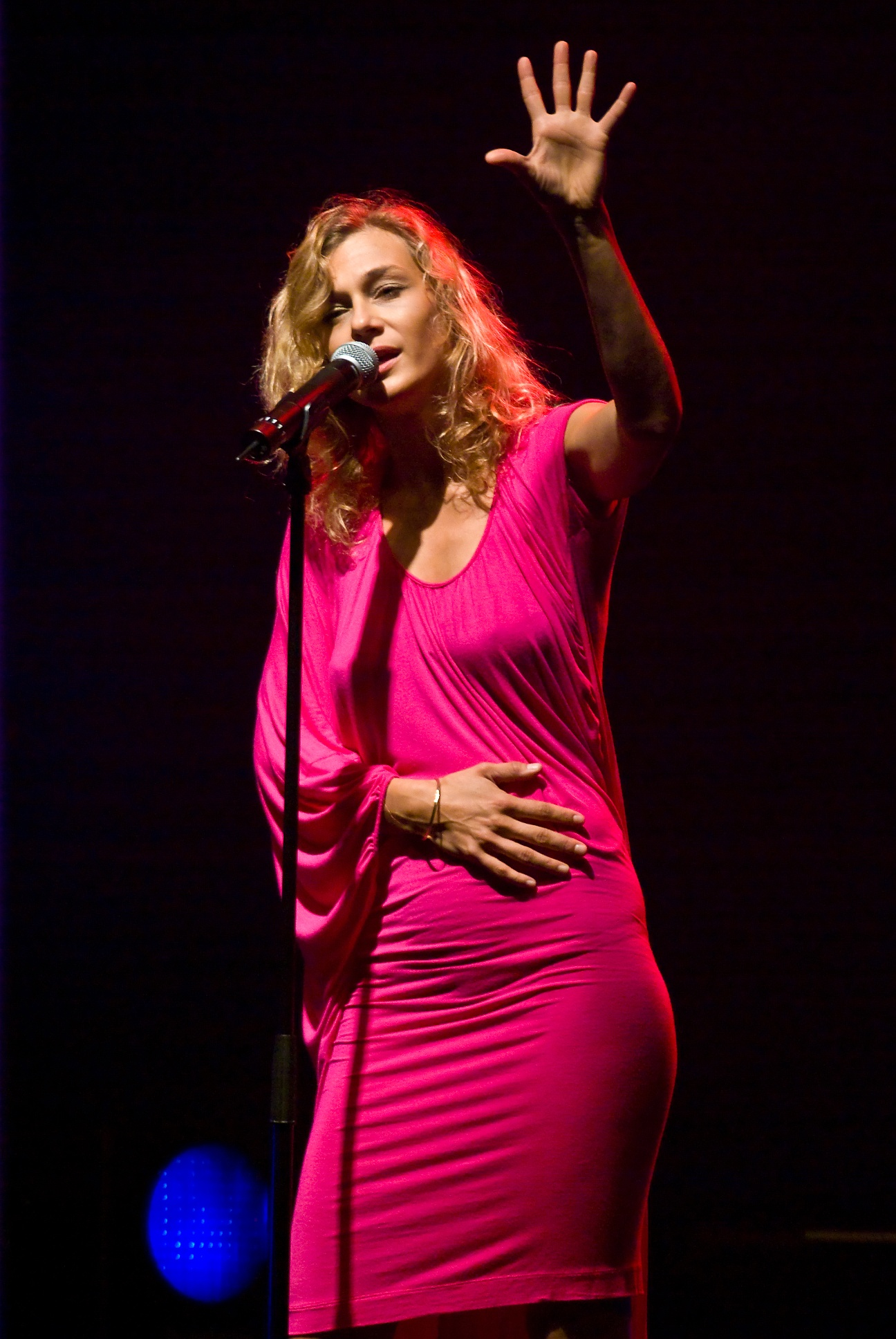 Austrian singer Valerie (Valérie Sajdik) performs in Tulln (Austria) on 30 August 2008.